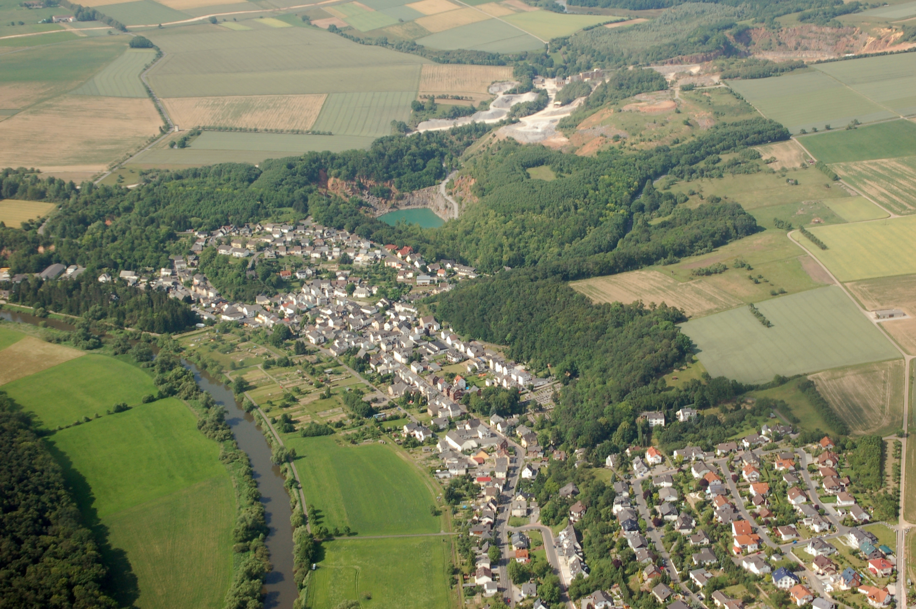 Aerial photograph of Steeden, Runkel (Lahn), Hesse, Germany